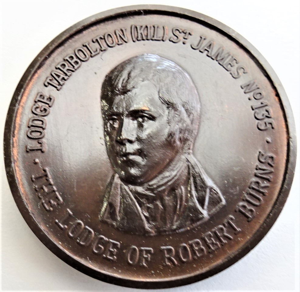 Masonic Penny. Robert Burns's Lodge. Tarbolton St James. No.135.